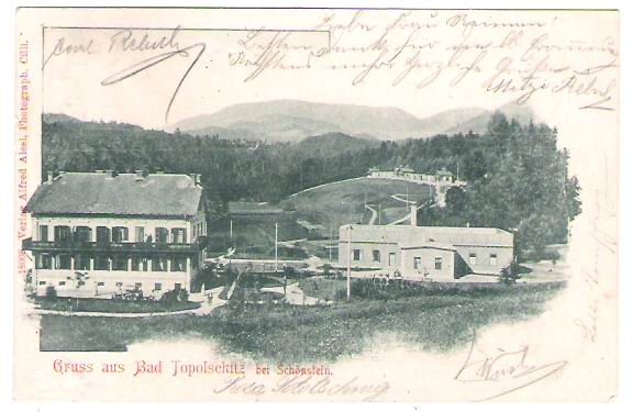 Postcard of Topolšica